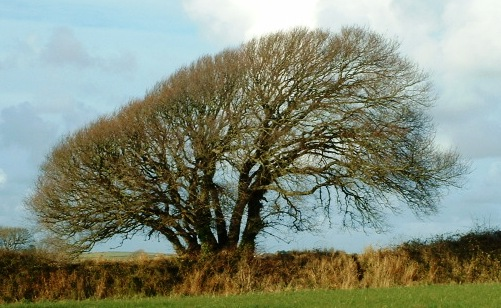 Photo of Davey Elm at Trenance Farm, Cornwall